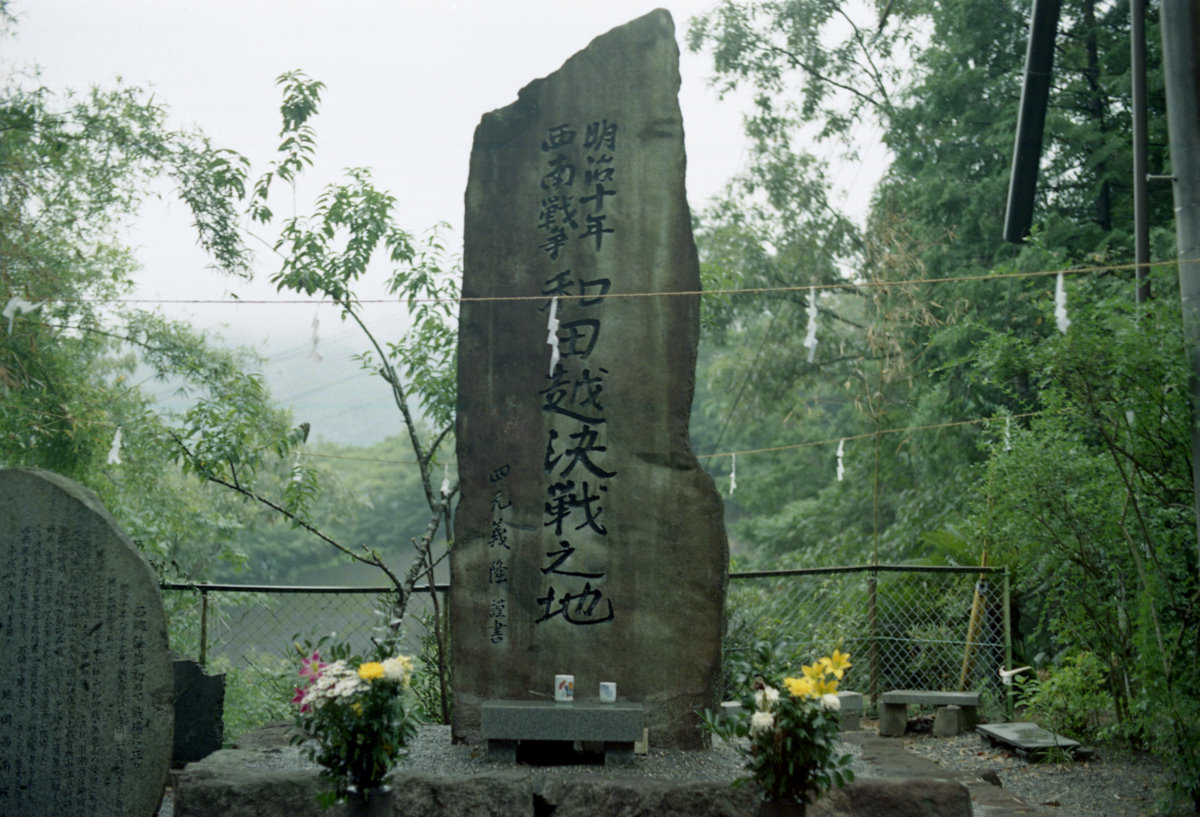 Battle of Wadagoe memorial.